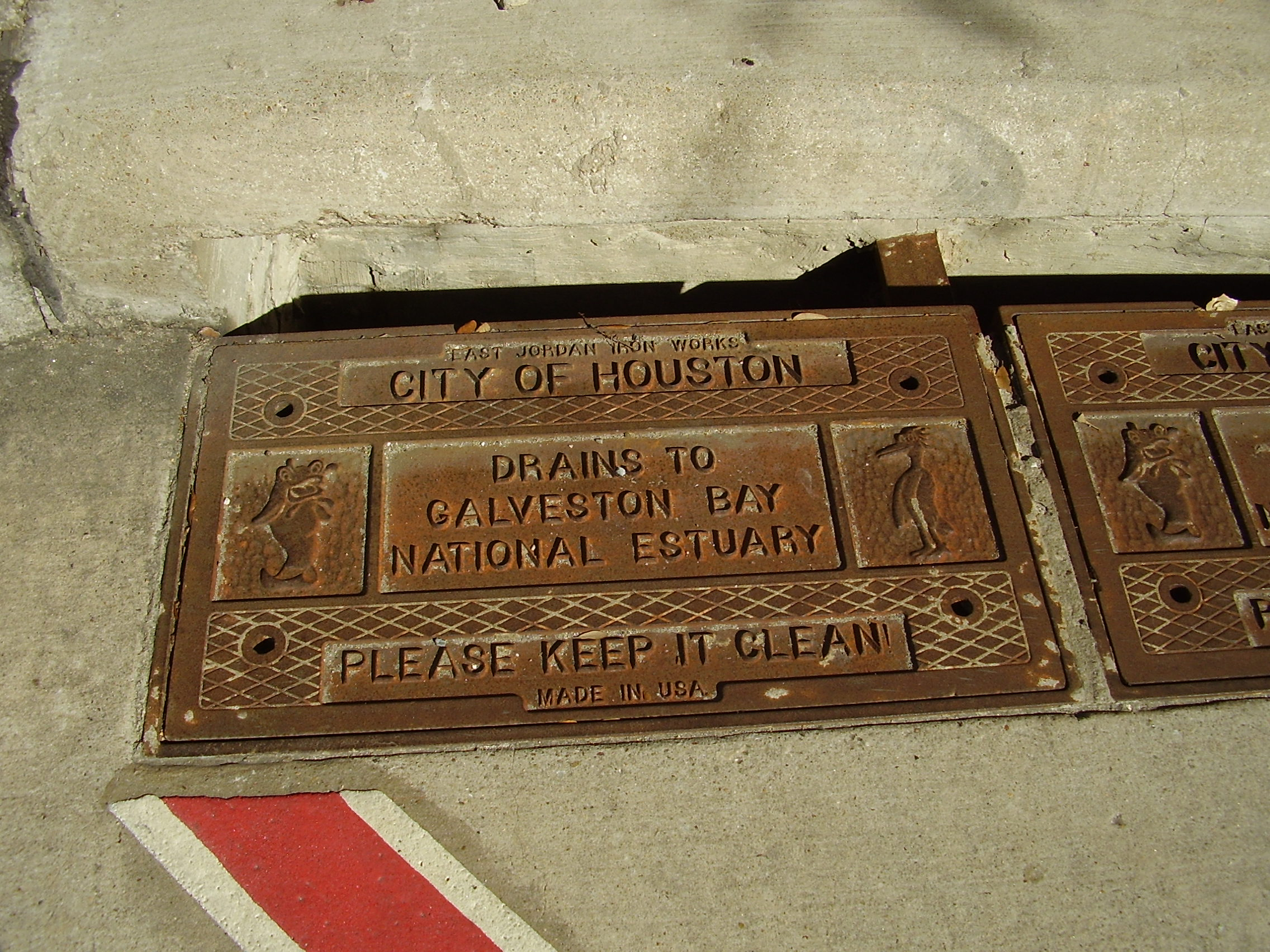 City of Houston drains with the message "Drains to Galveston Bay National Estuary" and "Please Keep it Clean"